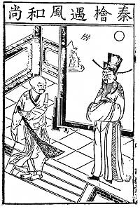 'Qin Hui encounters the Monk of the Wind' Woodblock illustration from the anonymous Ming romance Tale of the Eastern Window (Dong chuang ji), fasc. 2, Ming Wanli period (1573-1619) edition, published by the Tang of Fuchun Hall, Jinling Shusi.